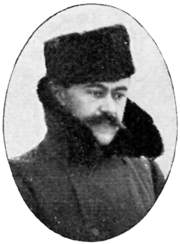 Image scanned from the book "Svenskt Porträttgalleri XX - Arkitekter, Bildhuggare, Målare m.fl. " ("Swedish Portrait Gallery XX - Architects, Sculptors, Painters, ") published 1901